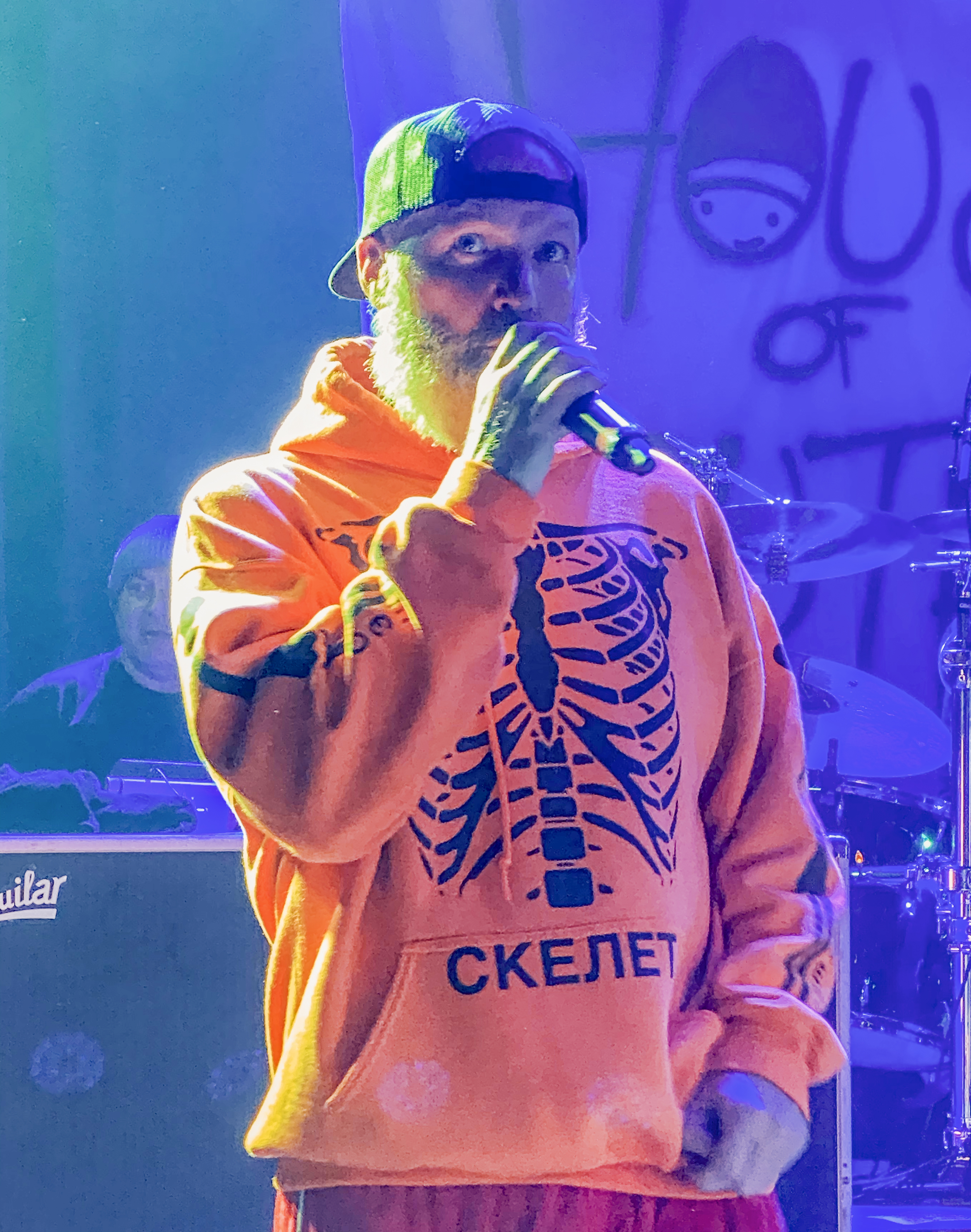 Fred Durst performing at The Roxy on December 3, 2019